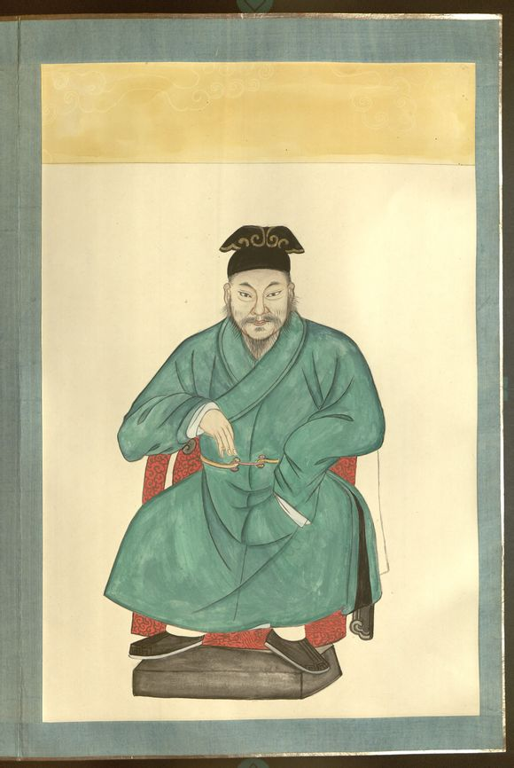 Mu Ding, a local commander of Lijiang